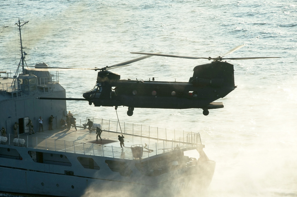 The fast rope familiarization training conducted in Romania, Sept. 15, 2011, was all a part of Exercise Jackal Stone 2011. Jackal Stone is an annual multinational special operations exercise designed to promote cooperation and interoperability between participating forces, build functional capacity and enhance readiness. This year, nine nations participated in various locations in Bulgaria, Romania and Ukraine